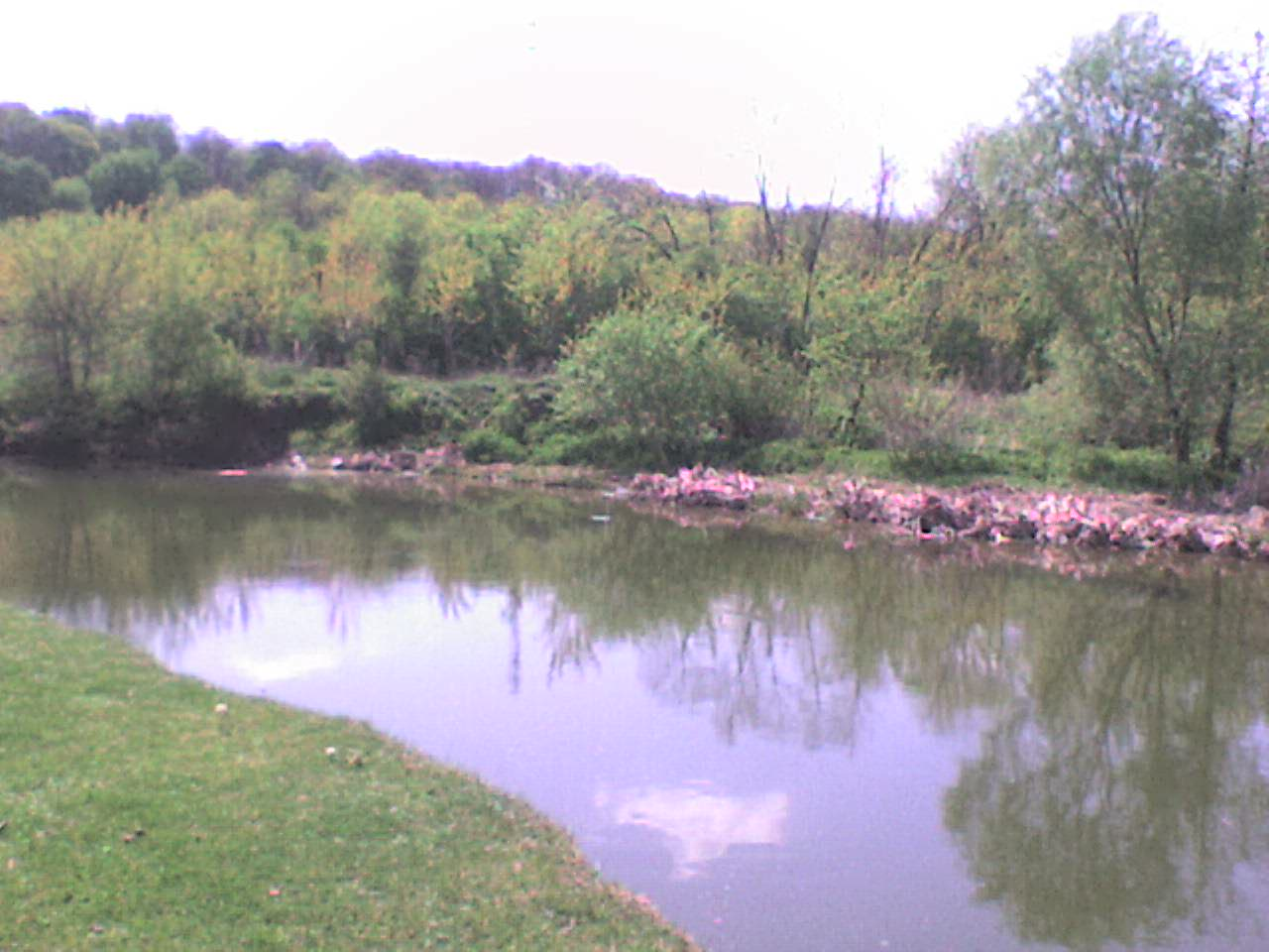 Neajlov River in Romania